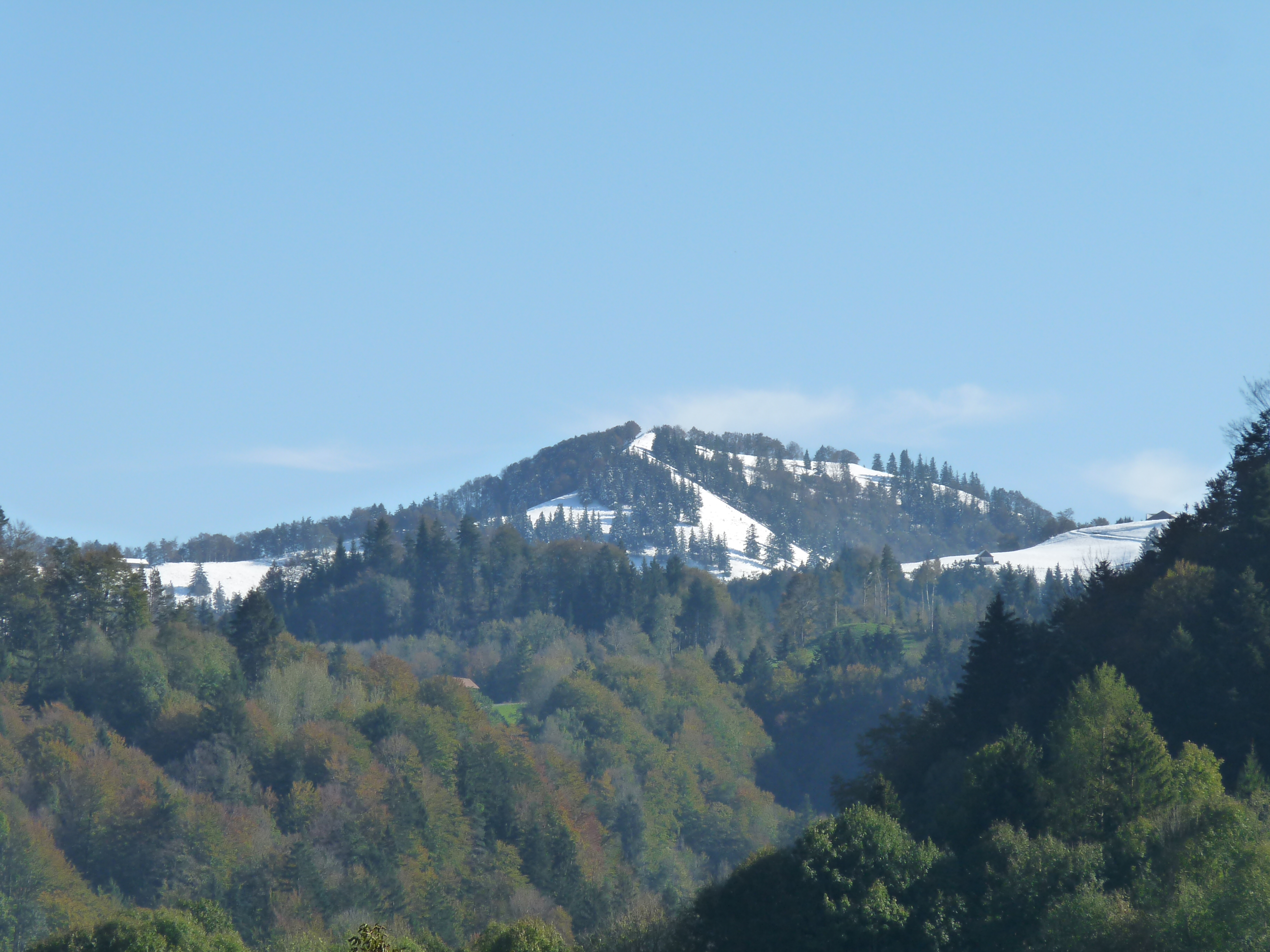 Schnebelhorn view from Lipperschwendi Tösstal